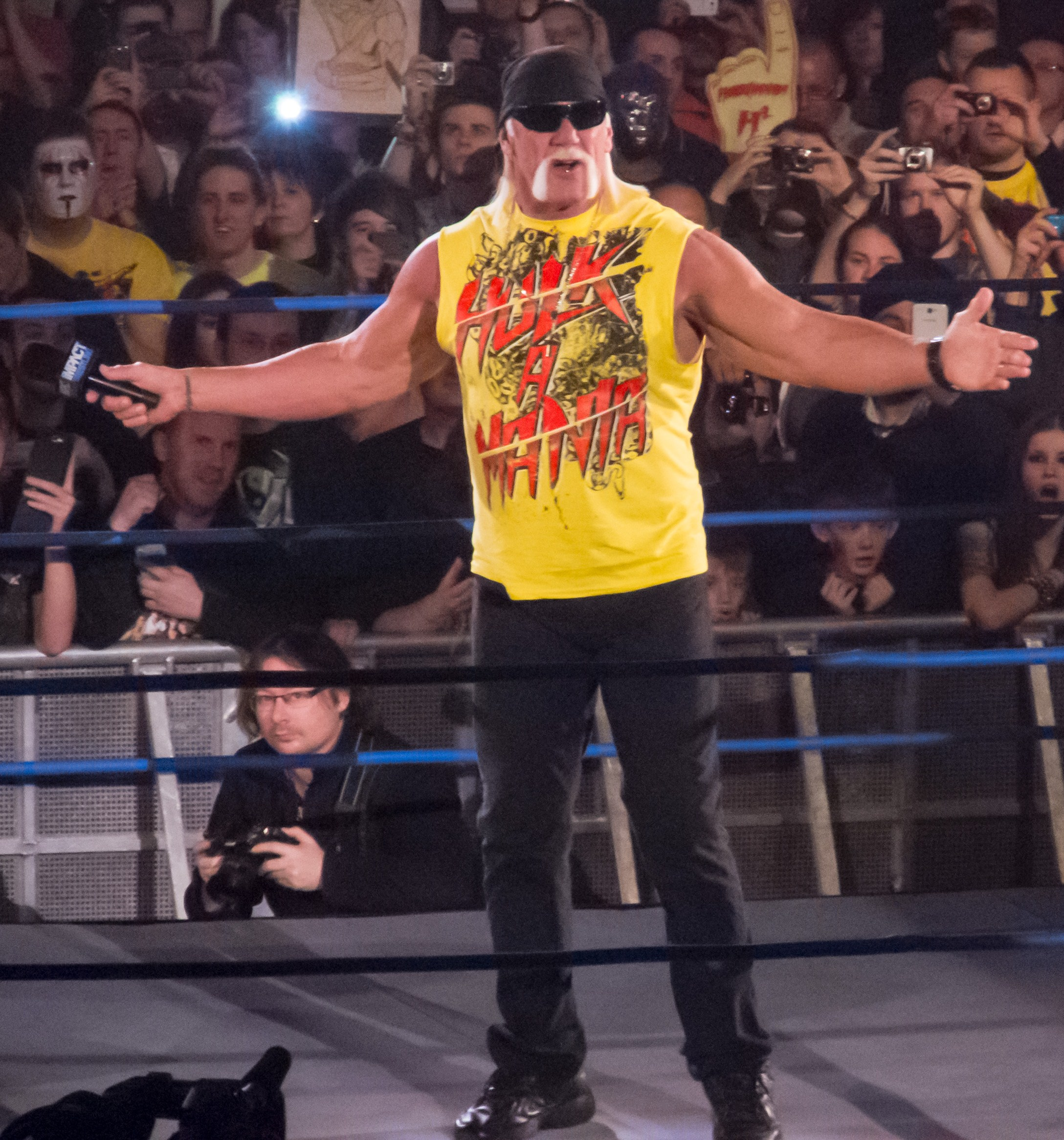 Hulk Hogan at the Impact! TV Tapings in Wembley, England on January 26, 2013.